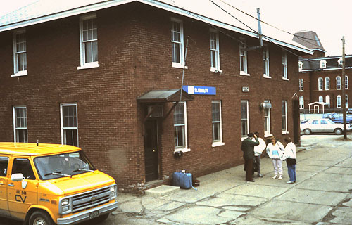 The Amtrak station at St. Albans, Vermont in April 1987, just days before the Montrealer was discontinued for two years